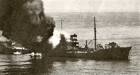 British tanker Kentucky in flames on 15 June 1942 after being shelled by Italian destroyers and cruisers during Operation Harpoon